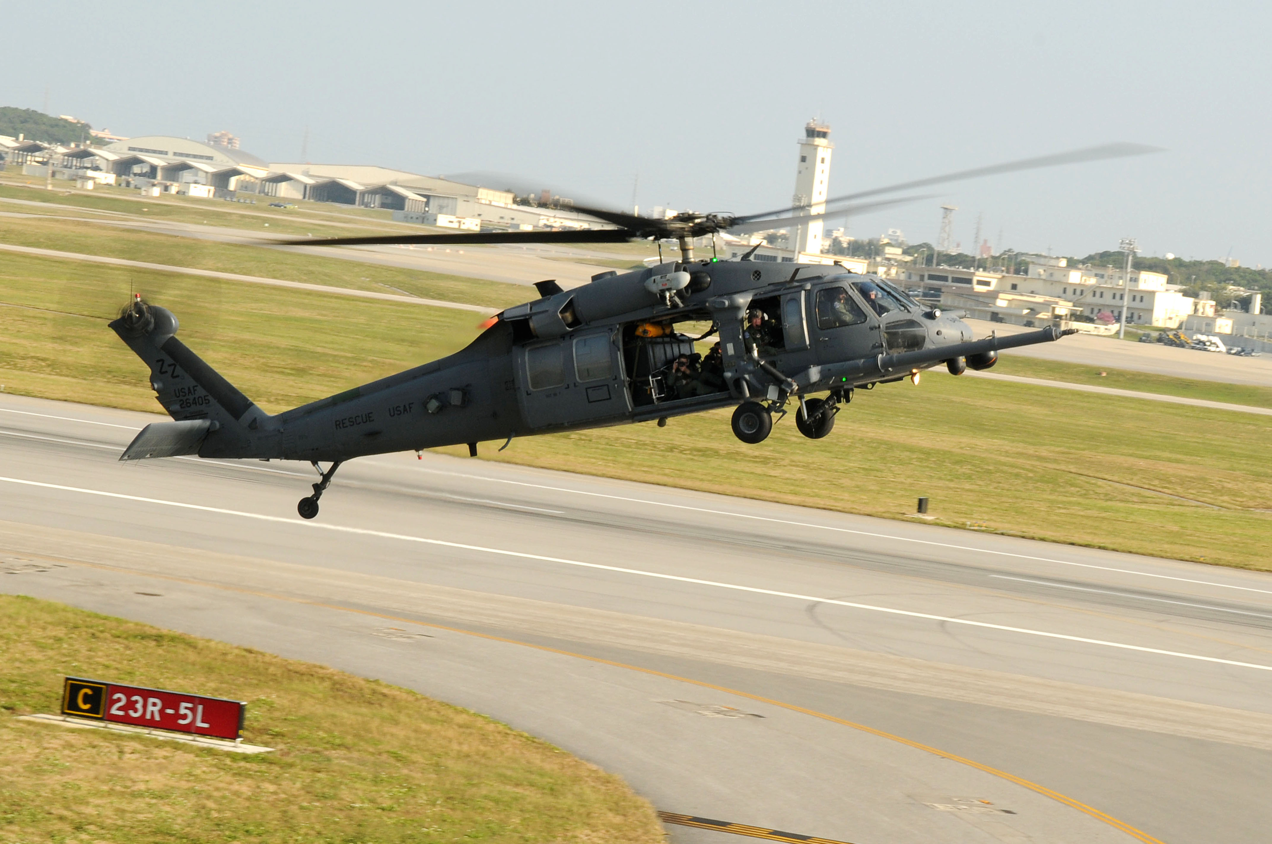 An HH-60 Pave Hawk prepares to land after an air refueling mission off the coast of Okinawa, Japan as part of exercise Cope Angel 09-1. Cope Angel is a joint rescue exercise between members of the U.S. Air Force and the Japanese Air Self Defense Force. (U.S. Air Force photo/ Staff Sgt Chrissy Best)